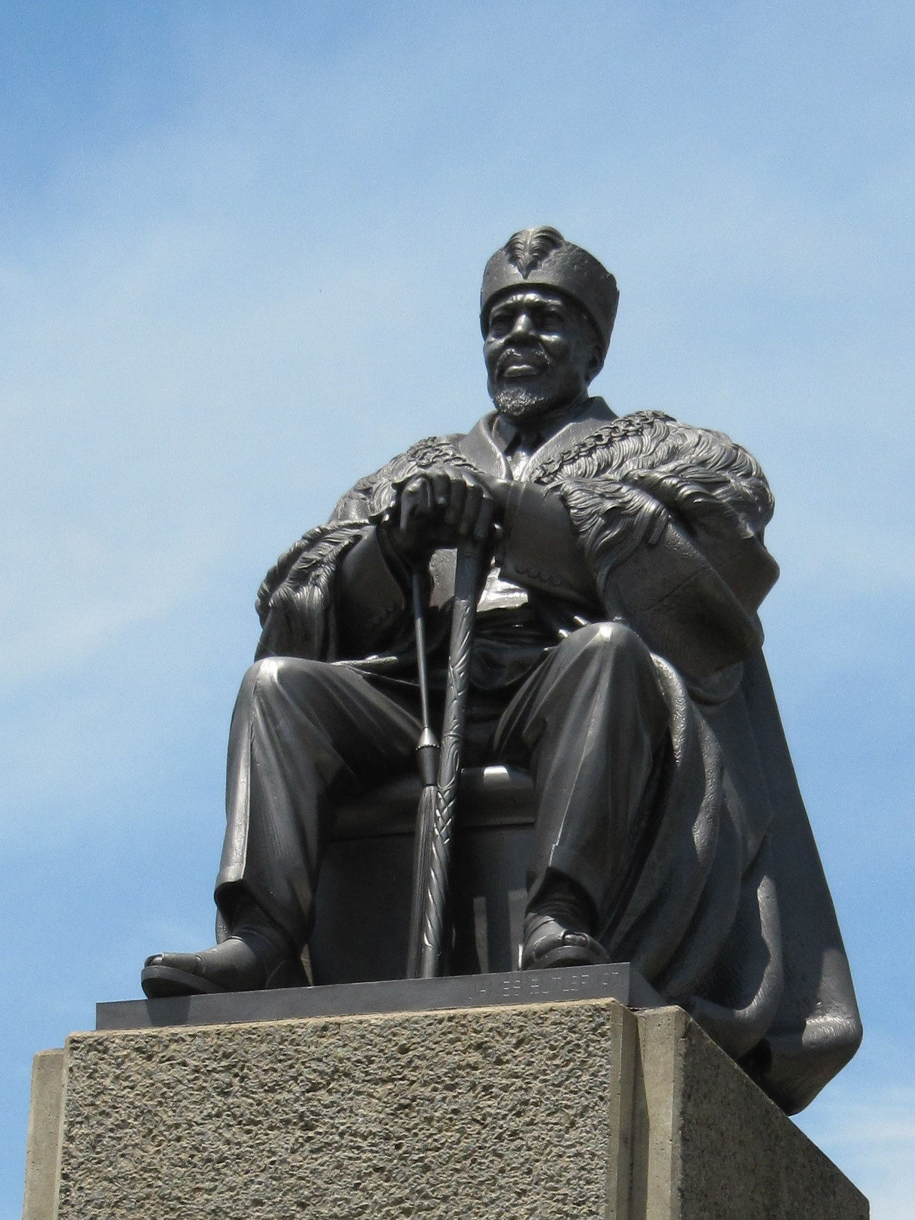 Jomo Kenyatta Statue in front of Kenya High Court, Nairobi, Kenya